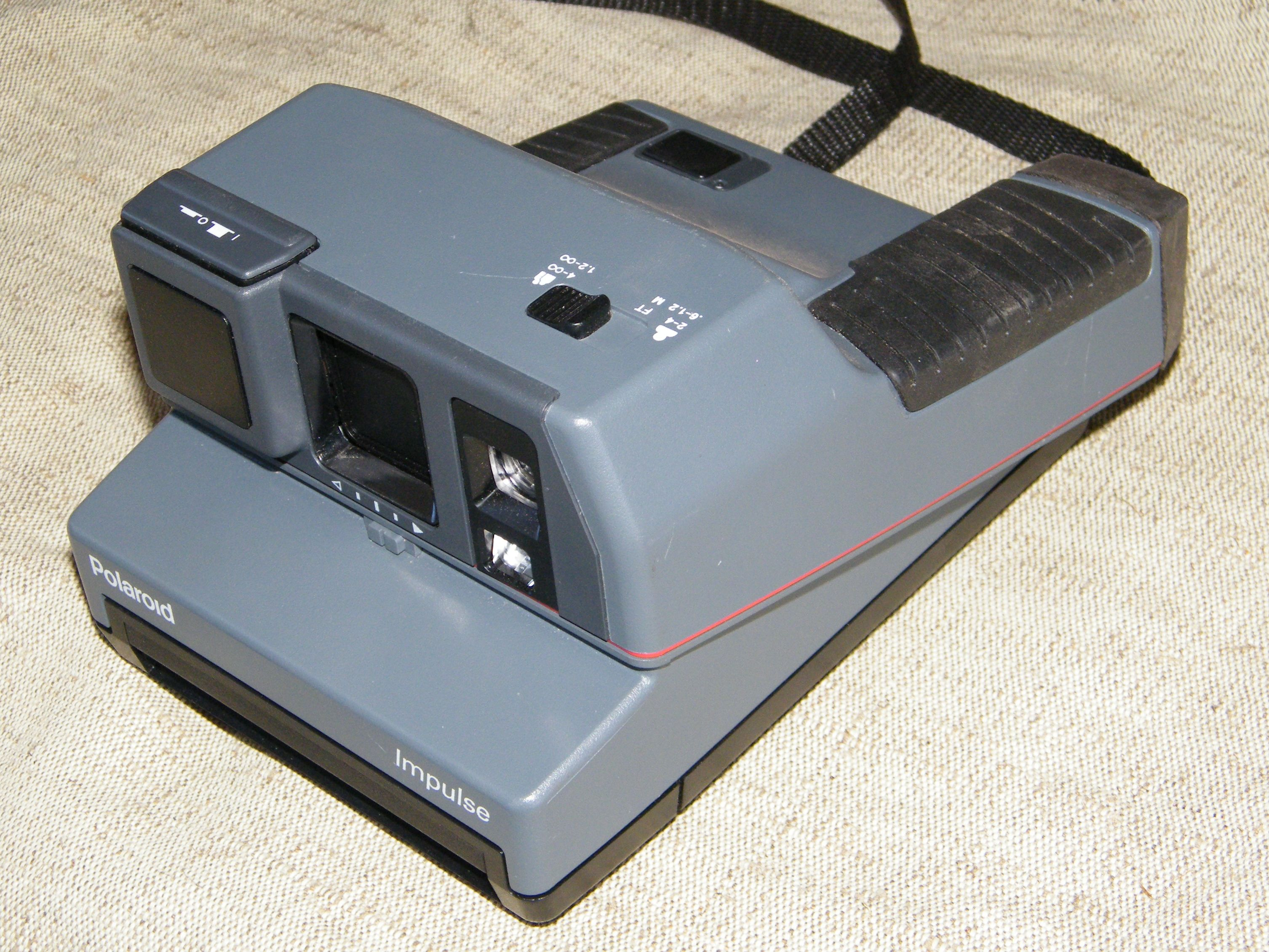 Polaroid Impulse